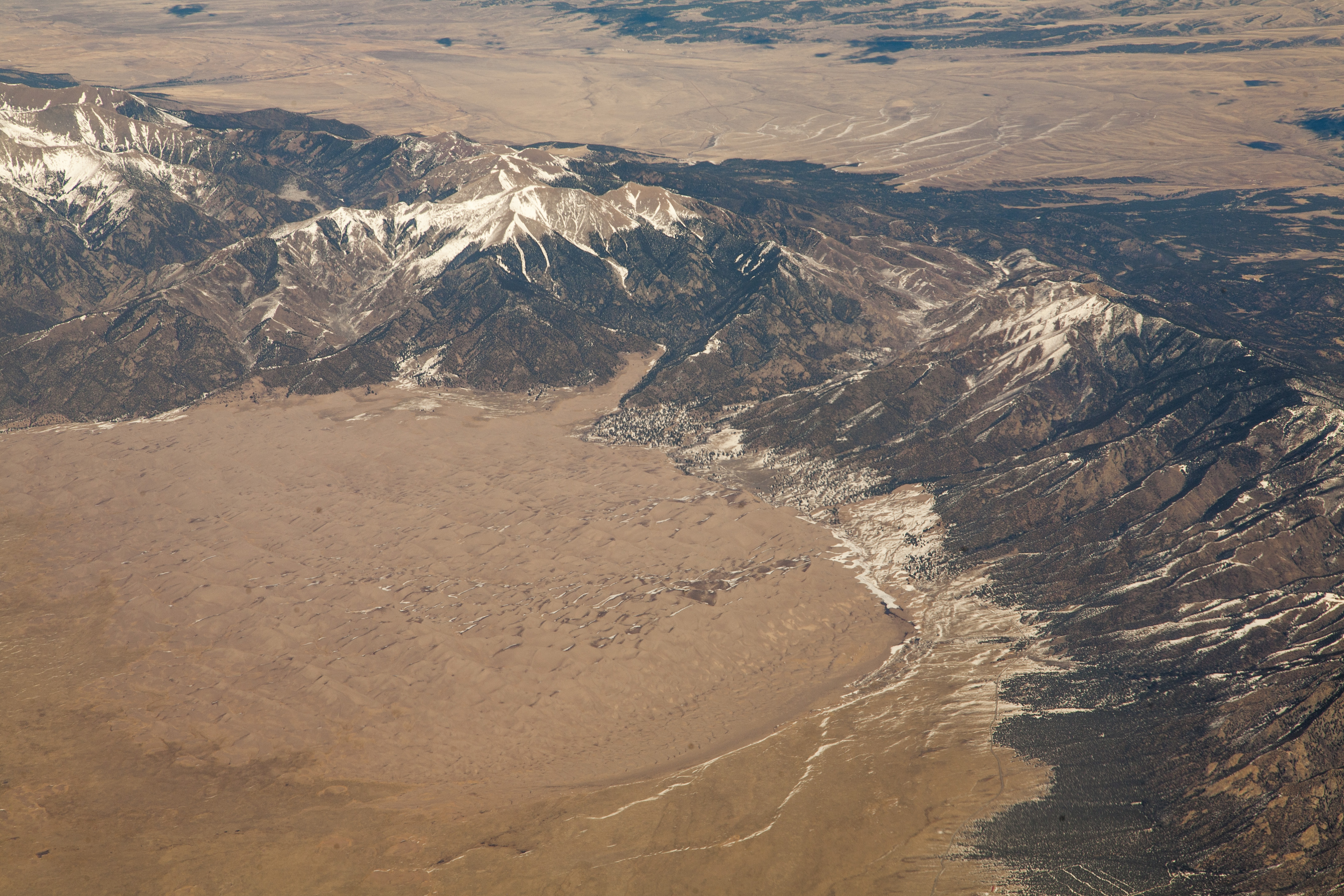 Great Sand Dunes National Park and Preserve, at the east end of the San Luis Valley in Colorado, flanked by the spine-like Sagre De Cristo Mountains